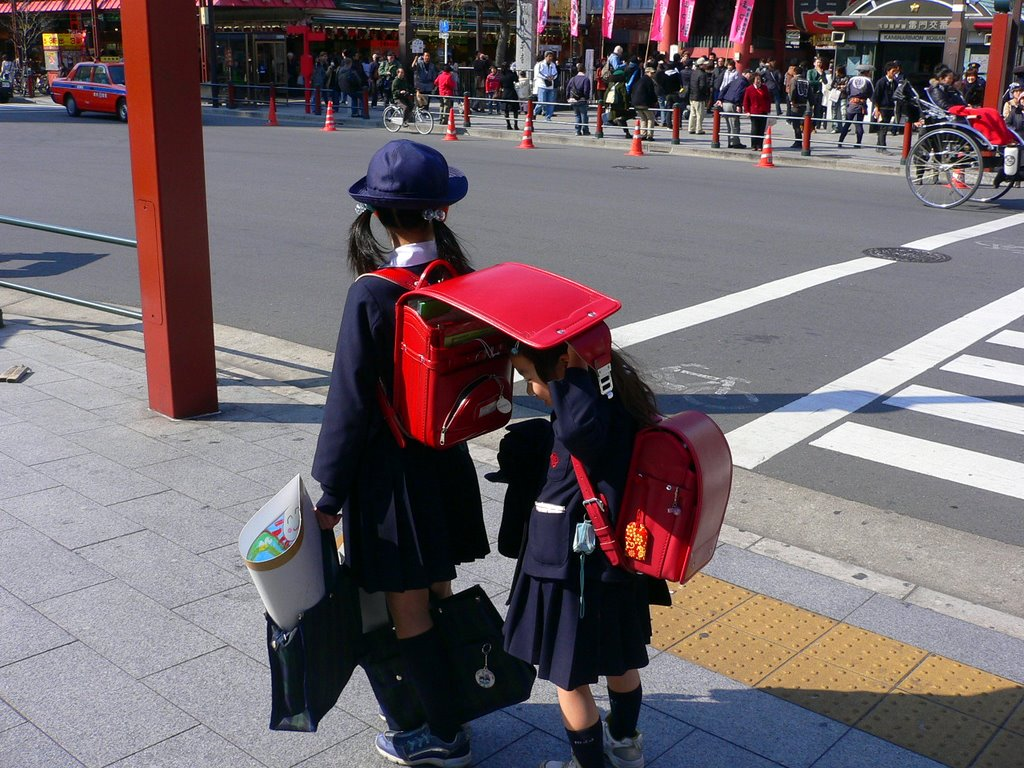 school children in Asakusa, Tokyo